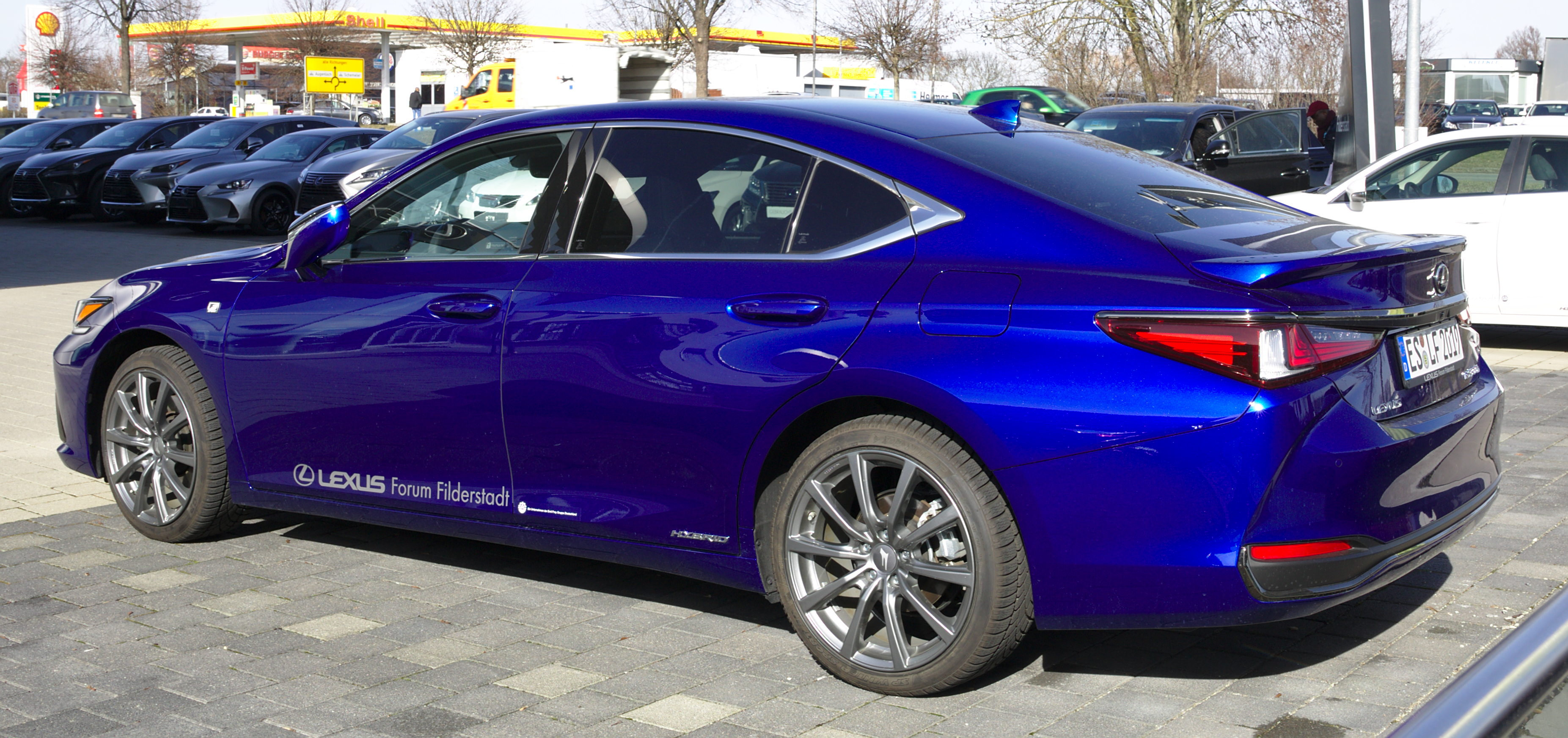 Lexus ES in Filderstadt